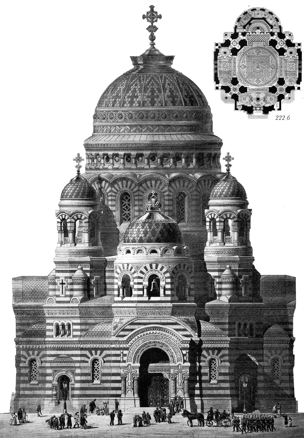 Draft of Savior on the Blood by Victor Schroeter. Fourth prize of 1882 contest